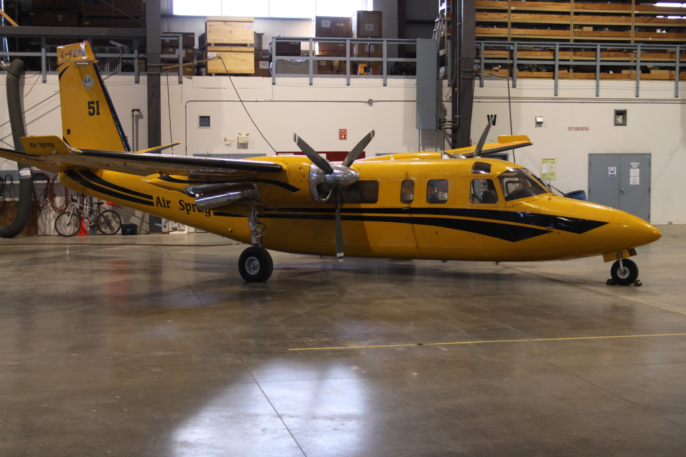 At Red Deer Regional Airport